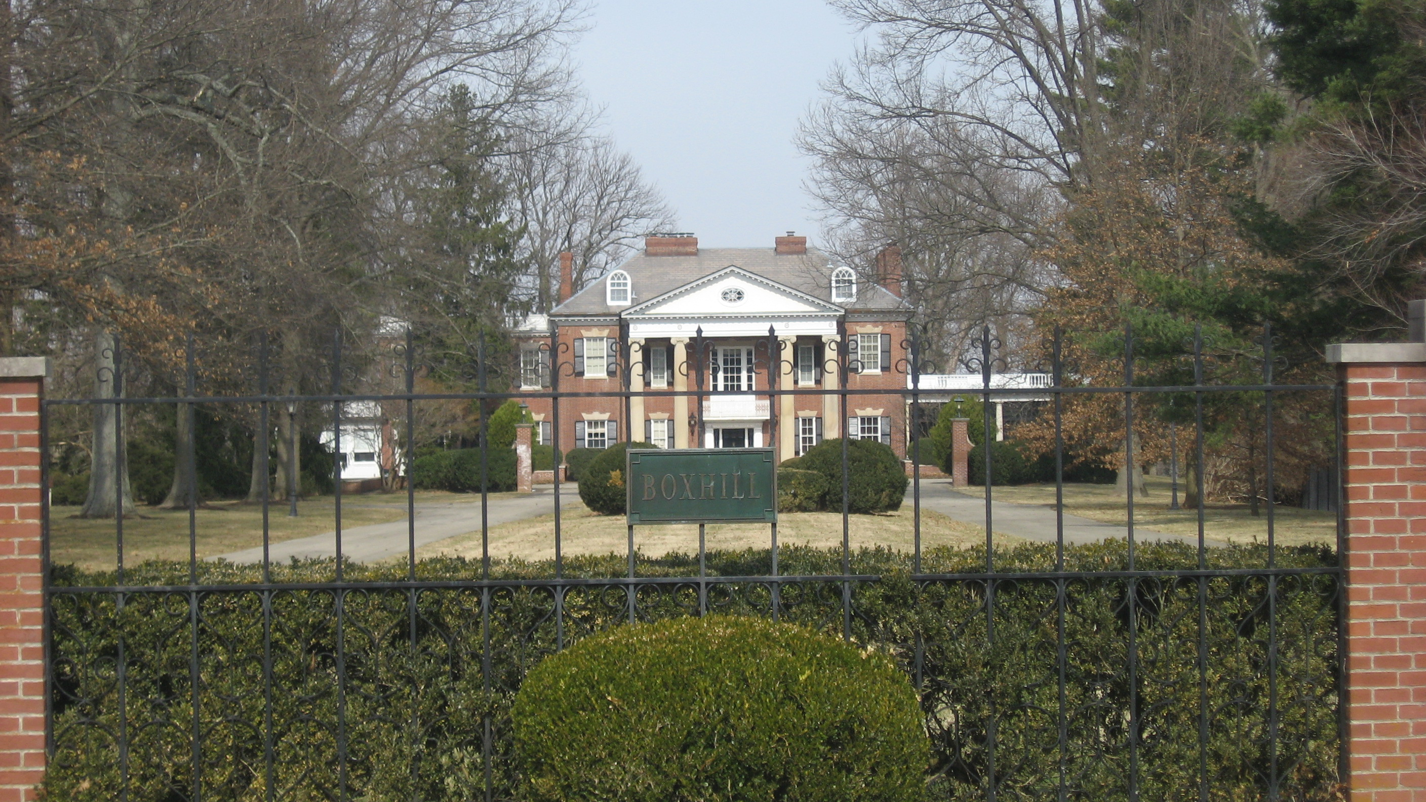 Front of Winkworth, the Boxhill estate, located at 3200 Boxhill Lane in Glenview, Kentucky, United States. Built in 1906, it is listed on the National Register of Historic Places.